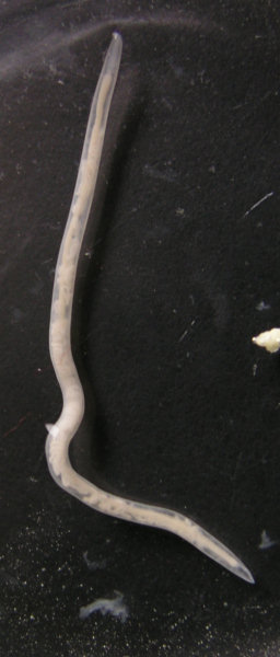 A nematode worm of 4 cm long, plucked from the cloaca of a budgerigar (melopsittacus undulatus) on 13 March 2005. After treatment with levamisol, the bird excreted a further 15 worms over a period of 2 days.